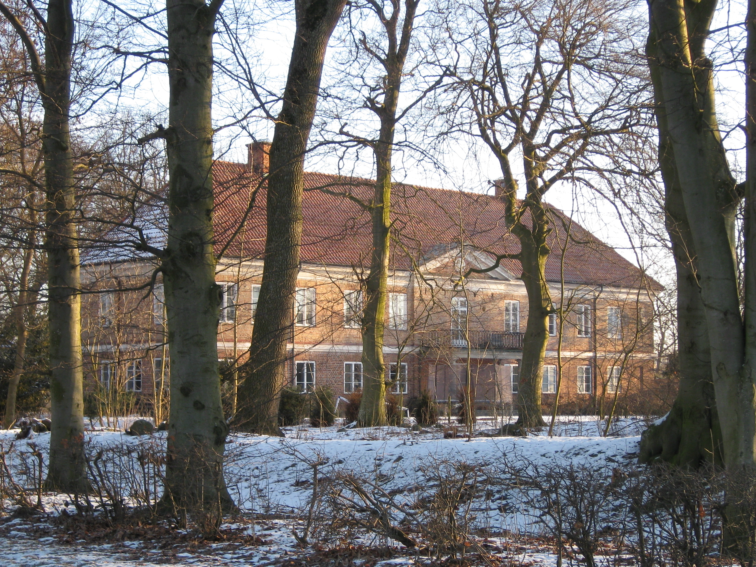 Trolleberg manor in Värpinge near Lund in Skåne, Sweden